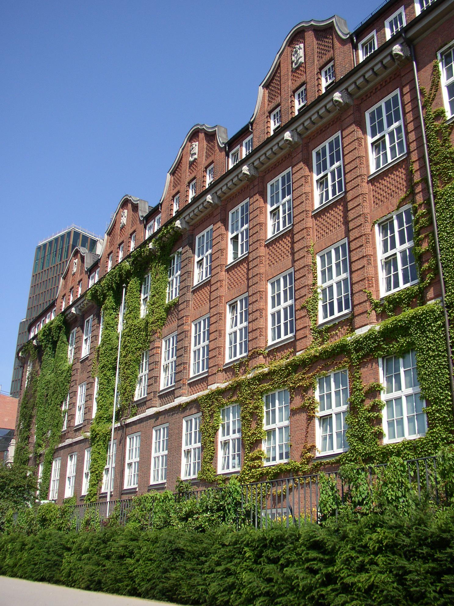 Bernhard Nocht Institute for Tropical Medicine in Hamburg-St. Pauli, Germany